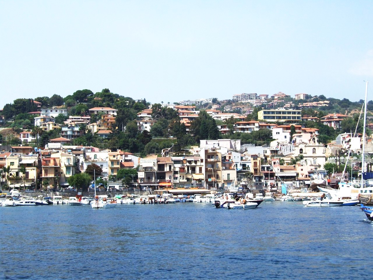 Aci Trezza Aci Castello Italy Italia Castielli CC0